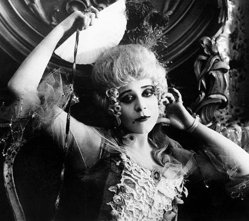 Still from the American drama film Madame Du Barry (1917) with Theda Bara, on page 24 of the December 22, 1917 Exhibitors Herald.